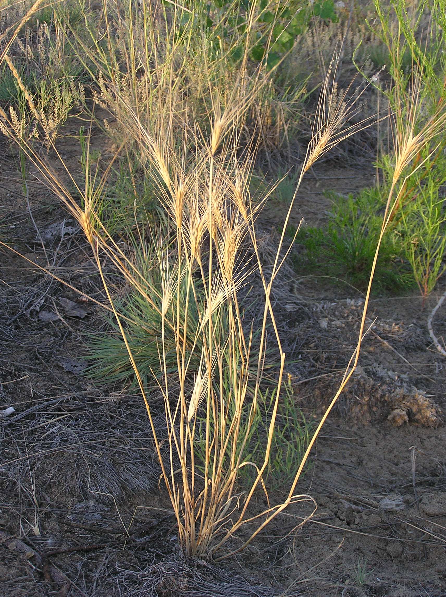 Secale sylvestre Host), habitus. Habitat: sand dunes. Vicinity of Saratov city, Russia.